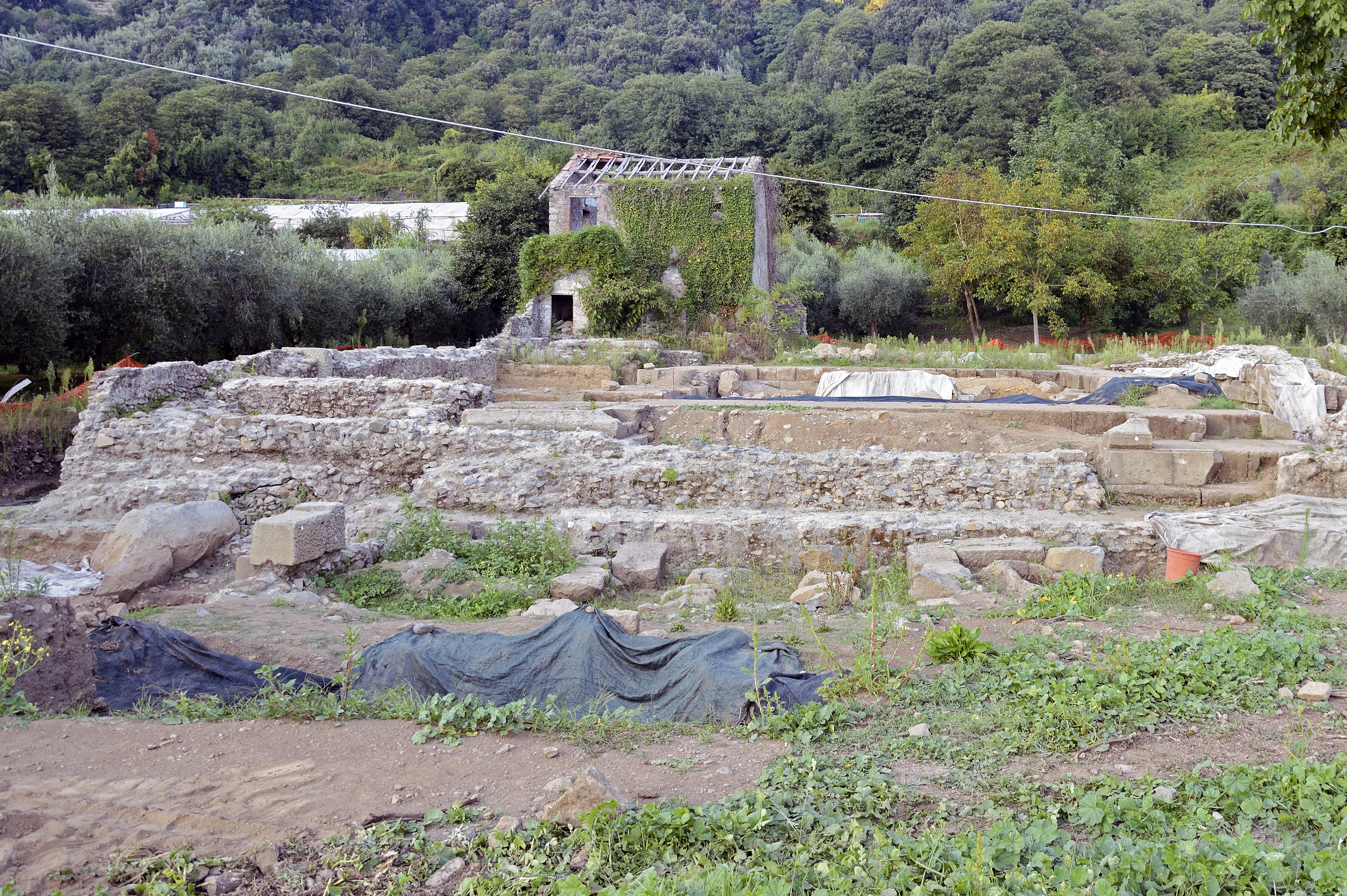 Remains of Temple of Diana in Nemi